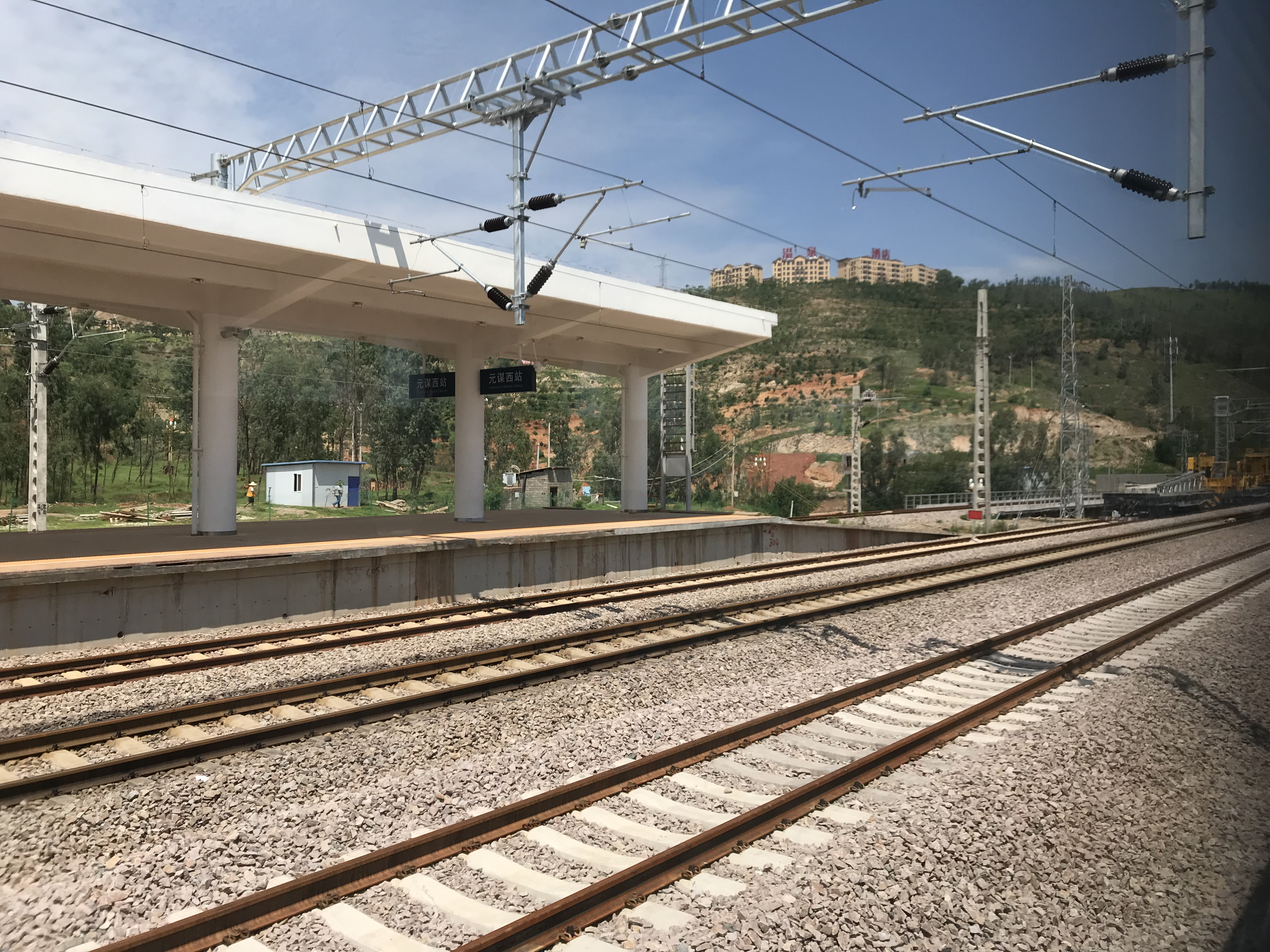 201908 Platform of Yuanmouxi Station